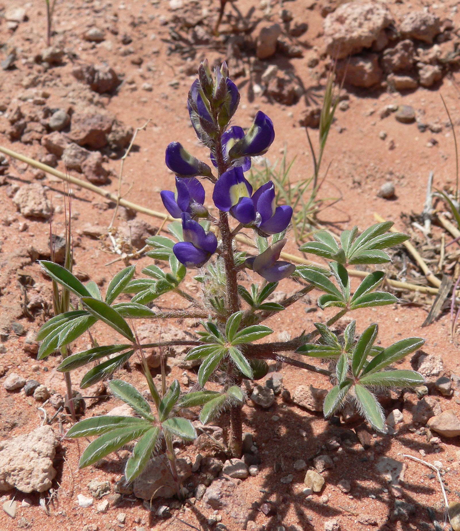 Lupinus flavoculatus near Red Spring, Calico Basin, Spring Mountains, southern Nevada (elev. about 1100 m)